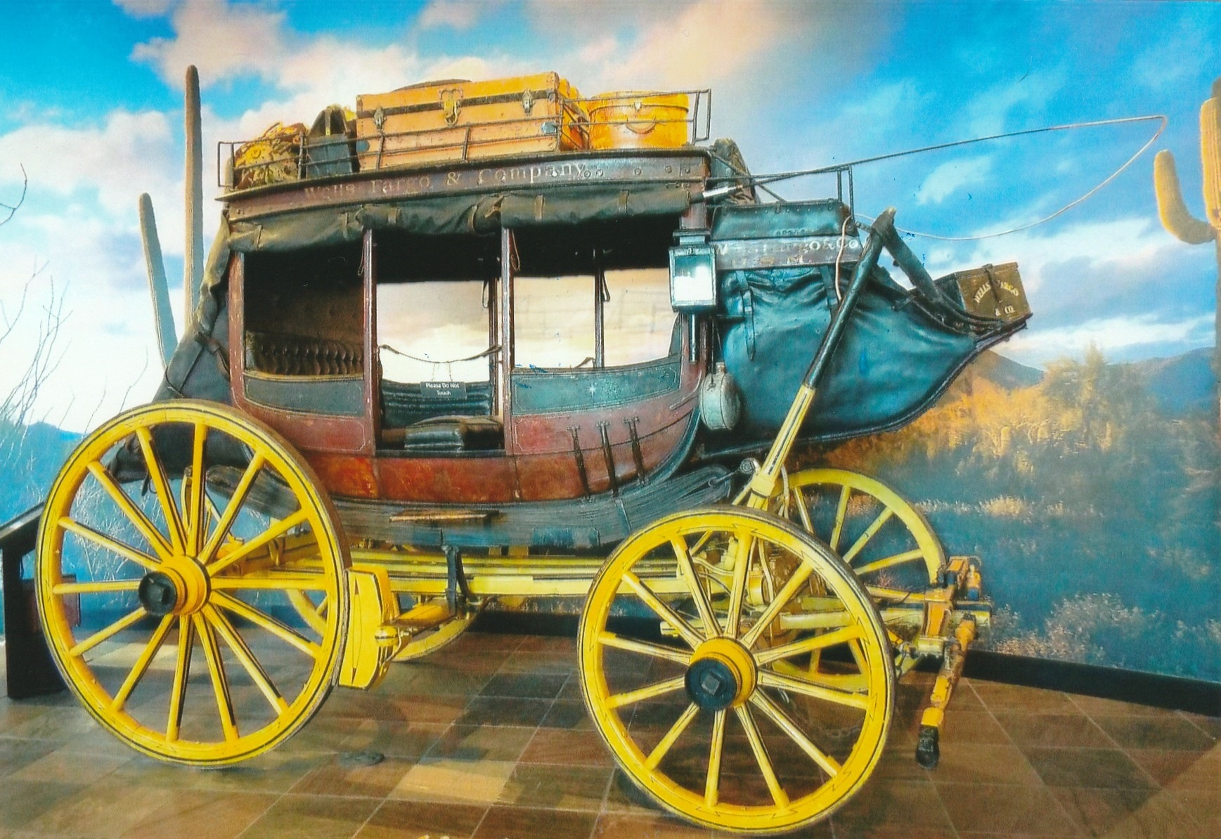 1879 Well Fargo Stagecoach on exhibit in the Wells Fargo Museum of Phoenix, Az